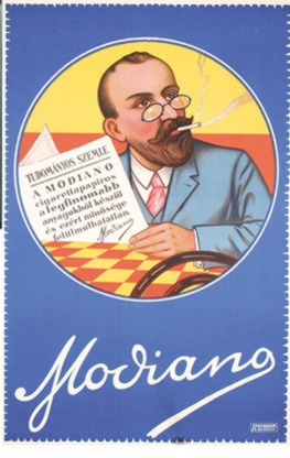 Old product that is not sold/produced anymore!